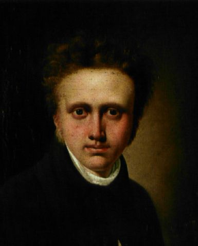 Portrait of the Danish architect Frederik Ferdinand Friis. Object history: Auctioned at Bruun Rasmussen, Bredgade Copenhagen on March 6, 2002 but not sold (Lot 705/1558). bruun-rasmussen.dk.